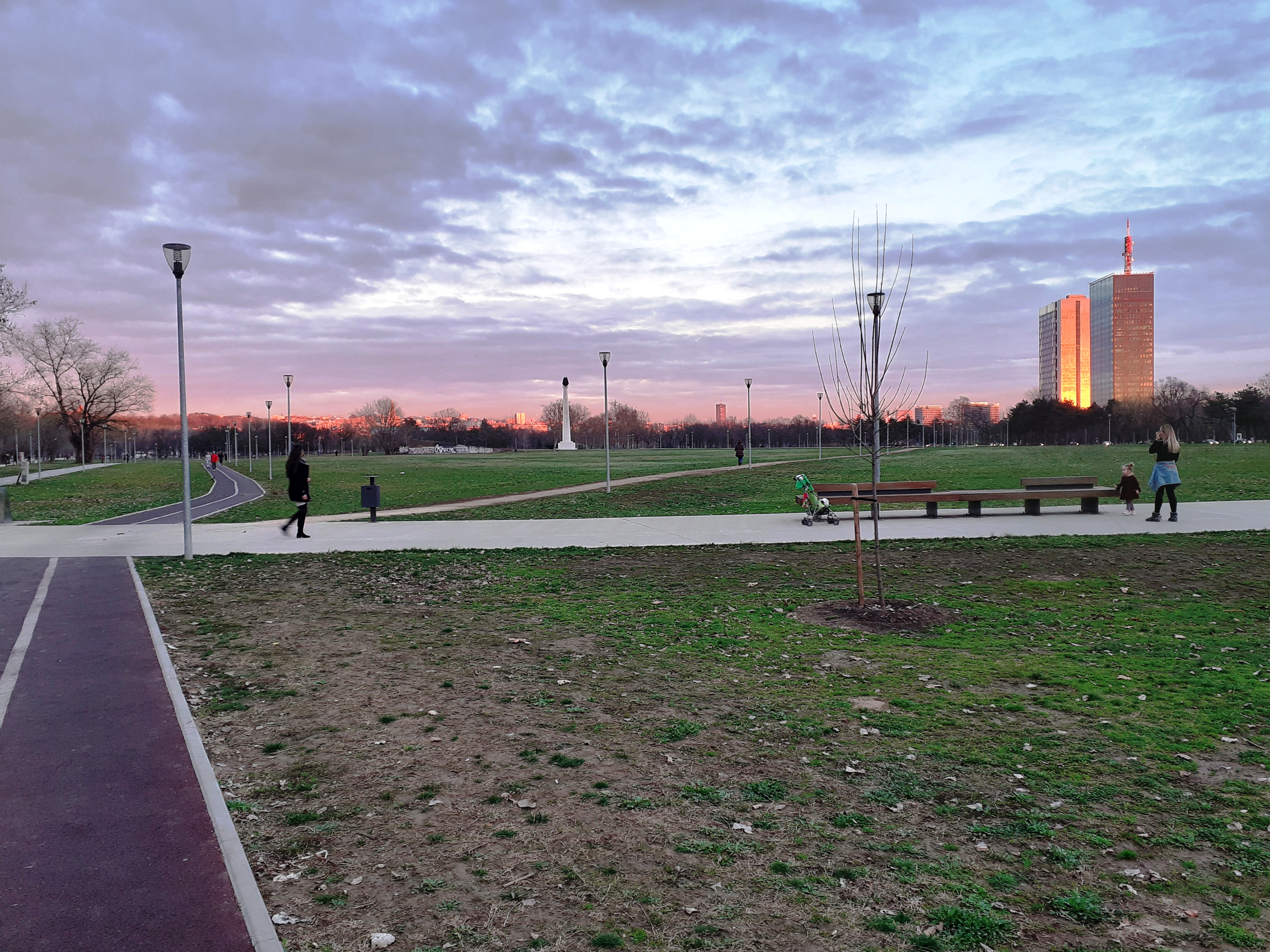 Ušće Park, New Belgrade